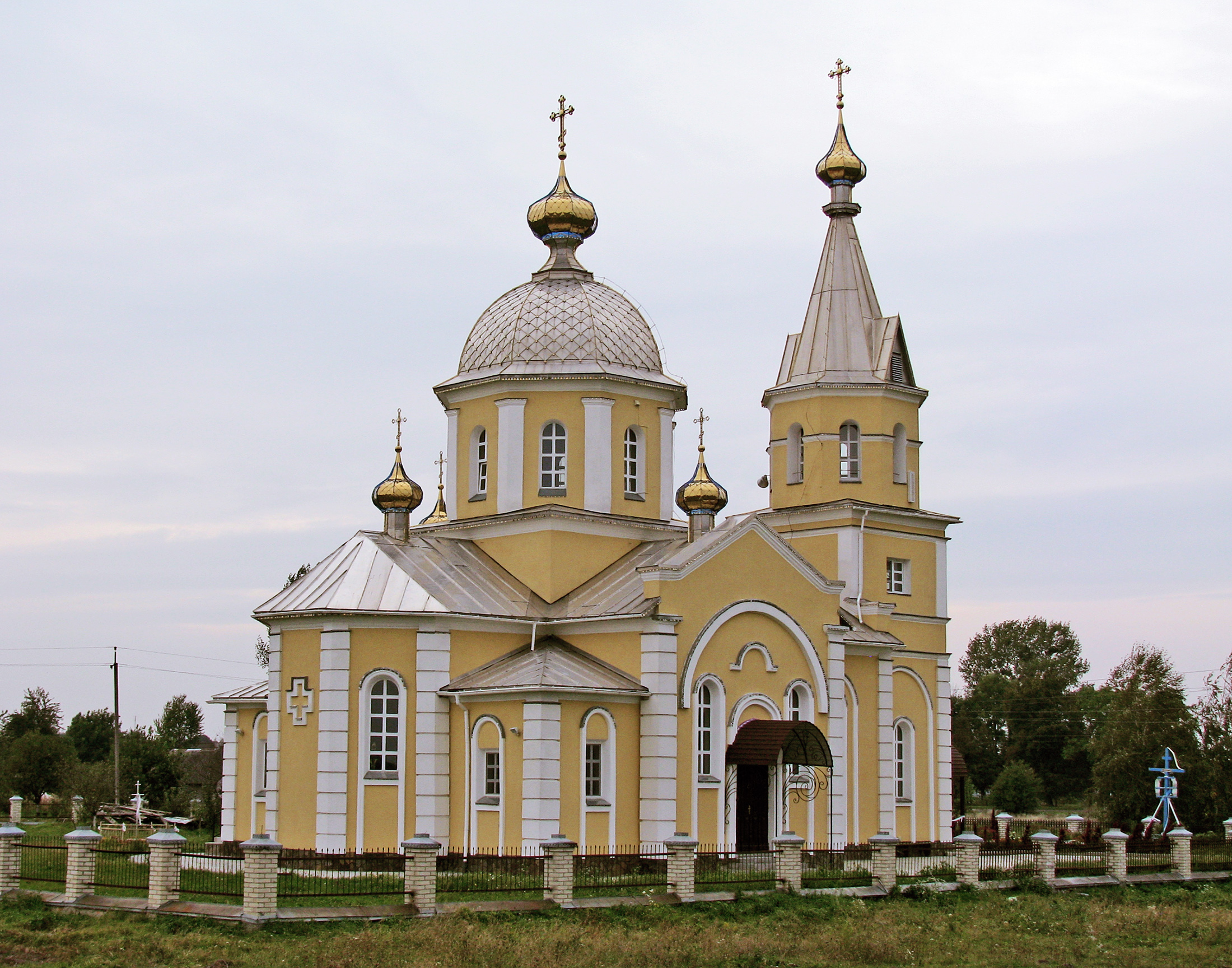 The Church of the Name of John the Apostle in the village of Borokhiv